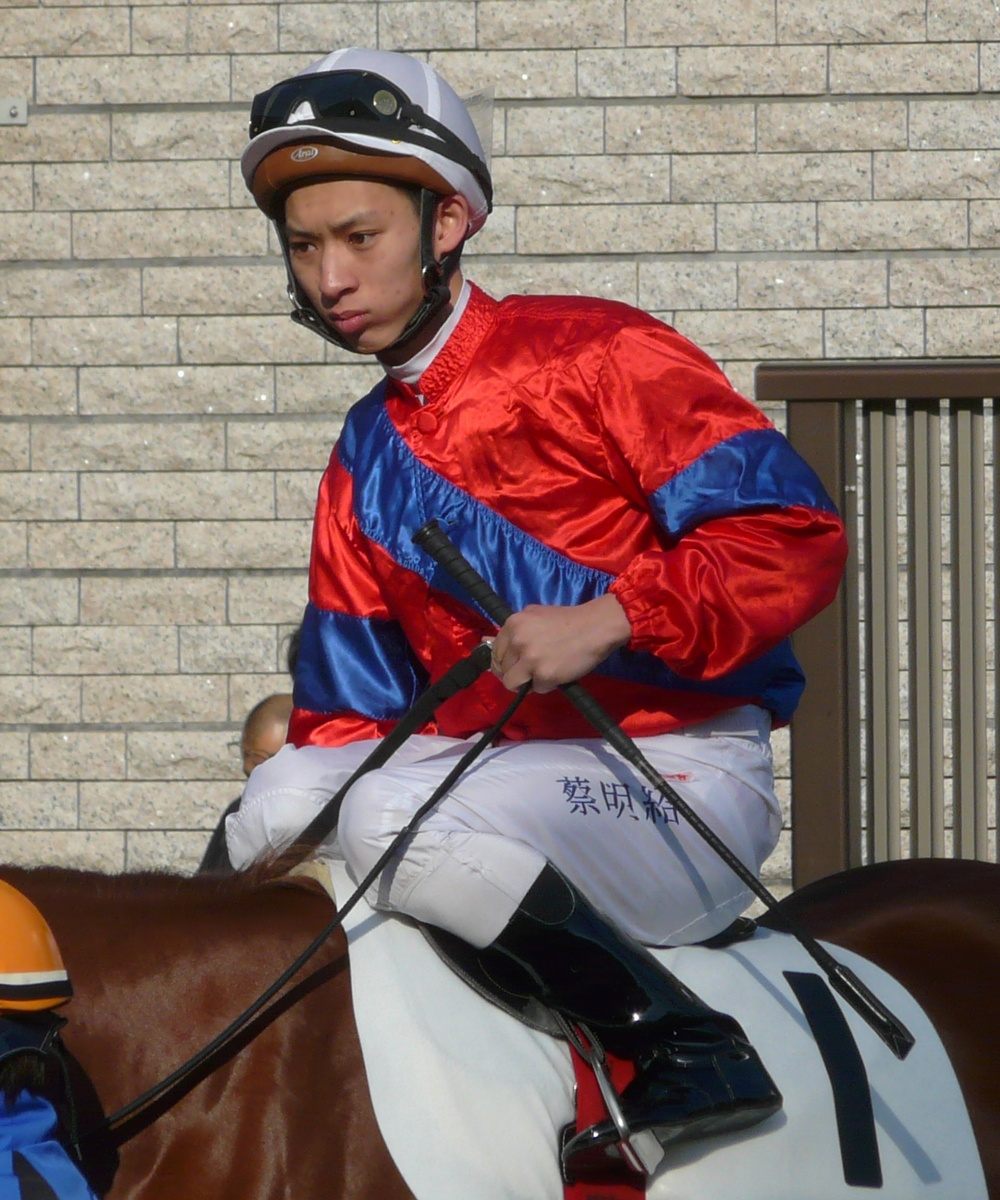 Matthew-Chadwick20101127